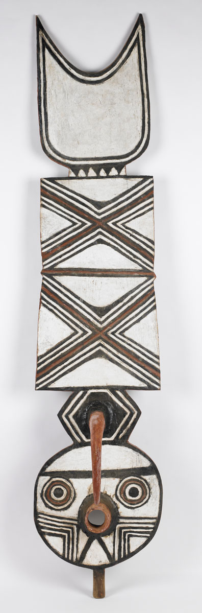 Tall vertical plank surmounts circular "face." Patterns on plank are carved and painted with red, black, and white pigment. Patterns on front include two large "X" designs, one atop the other. Top of plank is sculpted into upturned crescent moon shape. Back of plank has checkerboard pattern. Hood "beak" shape extends from front of circular face, pointing downward toward circular "mouth" opening. Deep oval shape extends from back side of face to cover masquerader's face. Holes around edge of oval for rope to secure mask to back of masquerader's head.